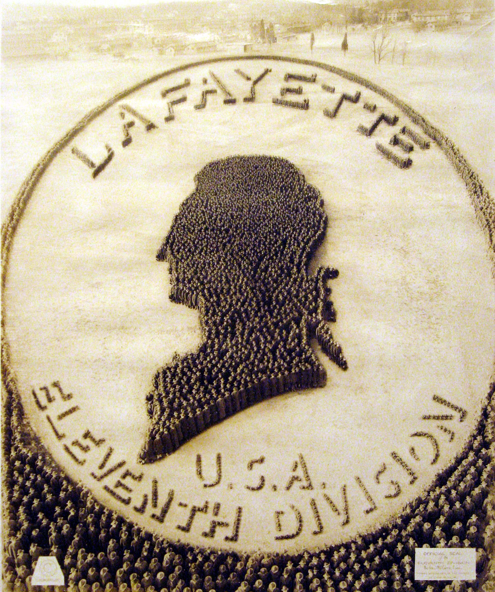 Official Seal of the Eleventh Division, Maj. Gen. J. Mc.I.Carter, Comdg-., formed by 15000 men of the division at Camp Meade, Maryland